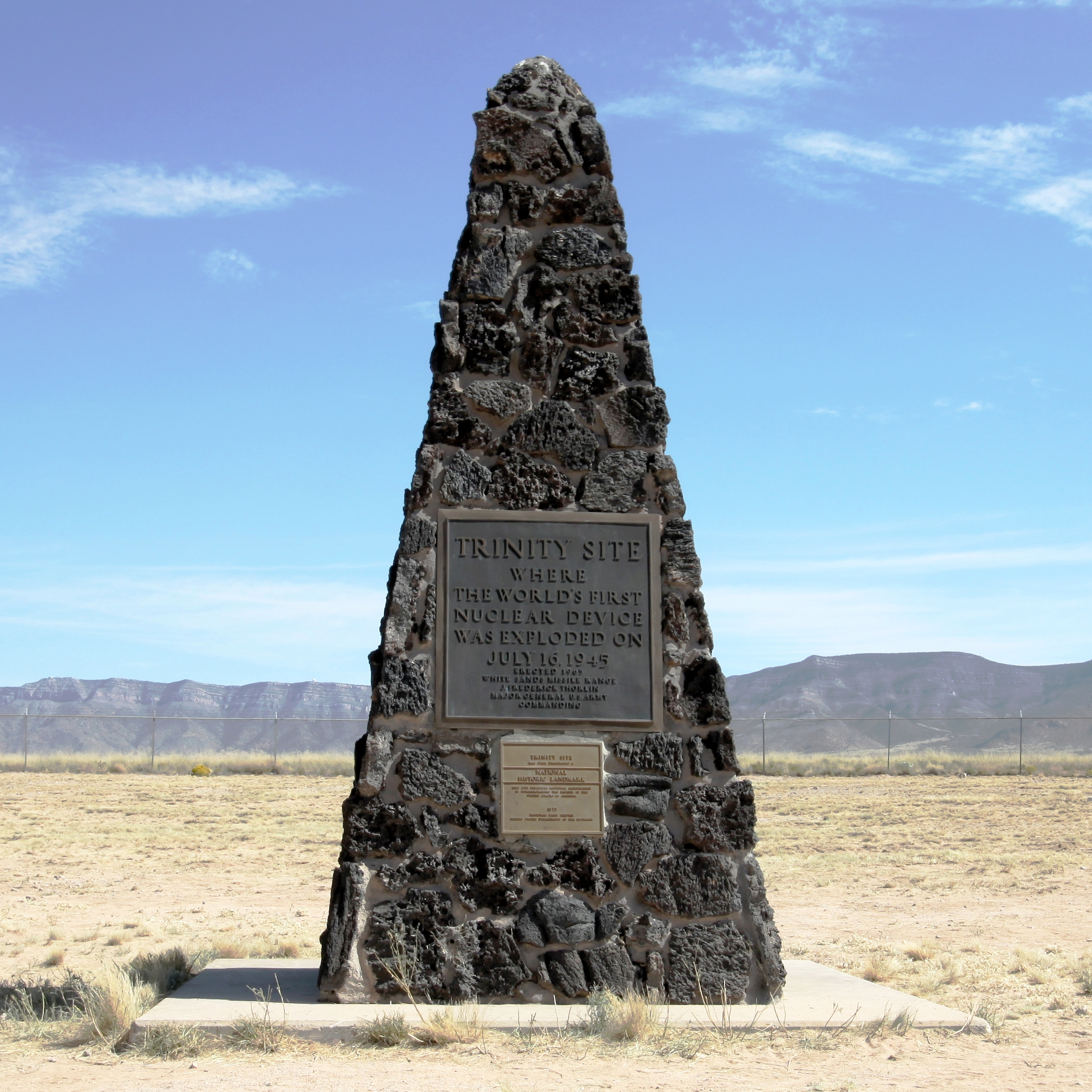 Trinity Site obelisk. The black plaque on top reads: Trinity Site Where The World's First Nuclear Device Was Exploded On July 16, 1945 Erected 1965 White Sands Missile Range J. Frederick Thorlin Major General U.S. Army Commanding The gold plaque below it declares the site a National Historic Landmark, and reads: Trinity Site has been designated a National Historical Landmark This Site Possesses National Significance In Commemorating The History of the United States of America 1975 National Park Service United States Department of the Interior